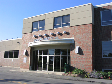 I am the creator of this photograph. It was taken in the summer of 2005.